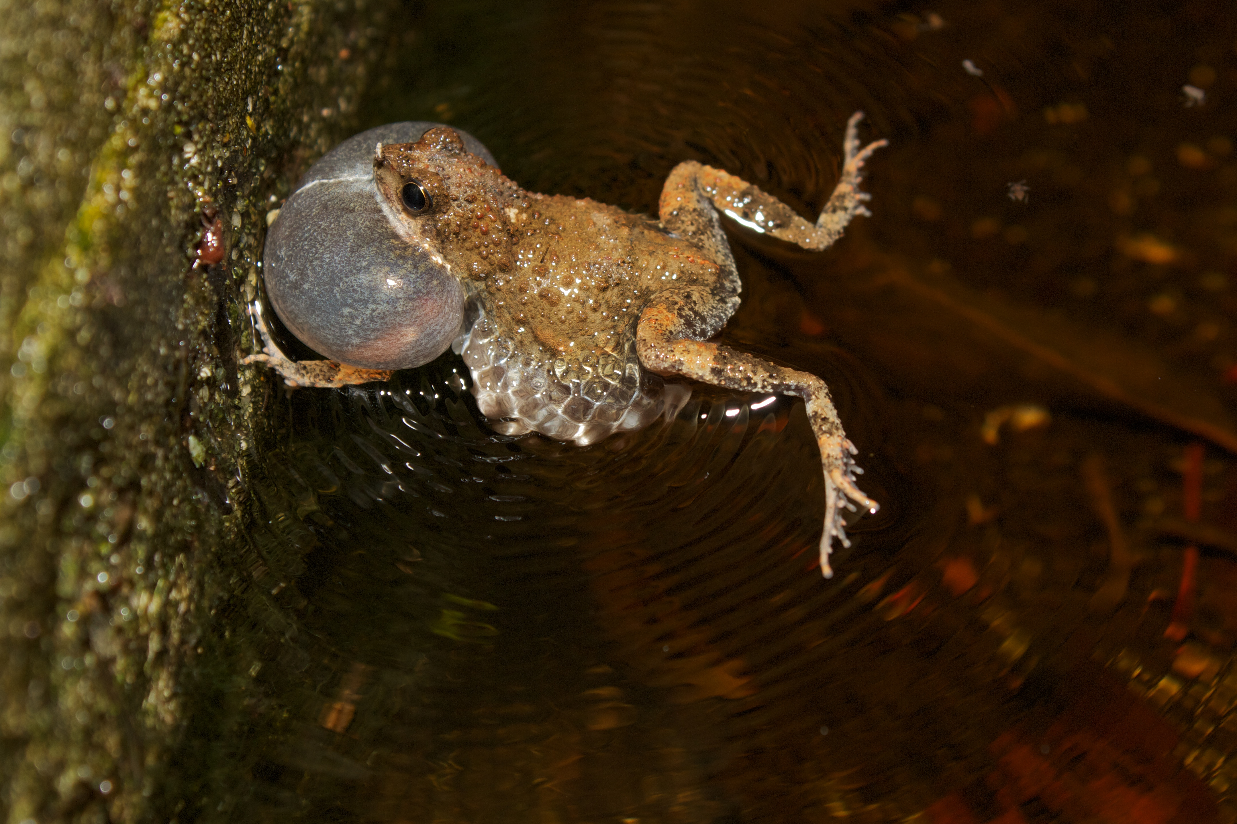 Tungara Frog (Engystomops pustulosus)